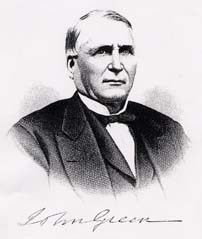 Obtained from First Published in 1880